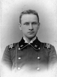 Andrey Kryachkov (1876-1950), russian architect